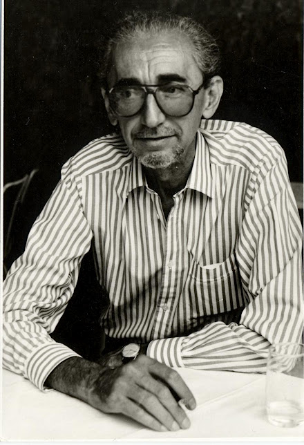 Budva, 1990